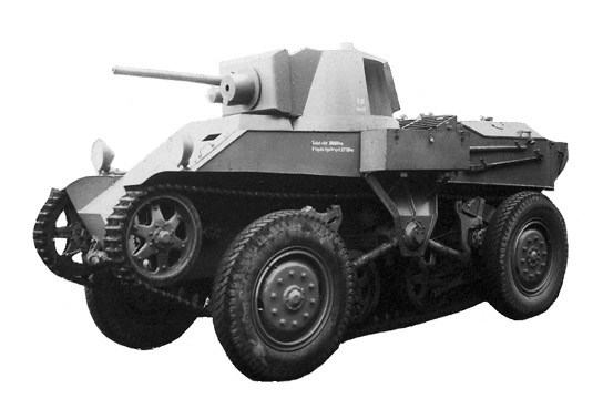 Swedish Landsverk L-30 tank